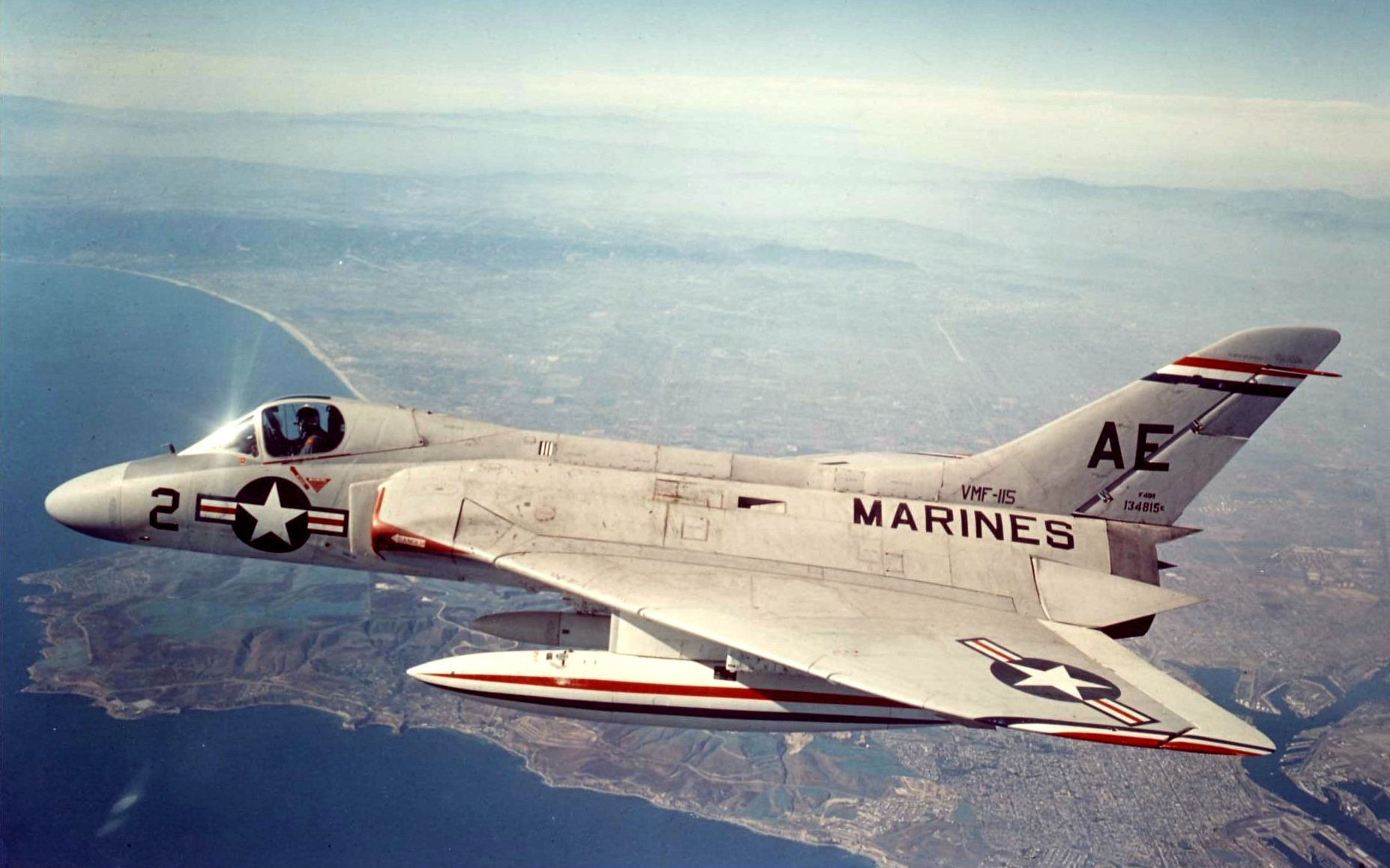 A U.S. Marine Corps Douglas F4D-1 Skyray (BuNo 134815) of Marine Fighter Squadron 115 (VMF-115) "Able Eagles" in flight.